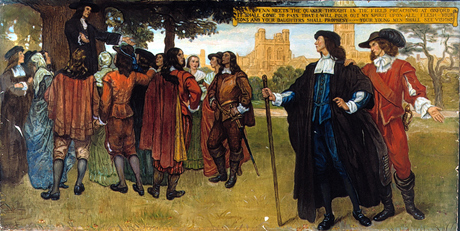 Violet Oakley (June 10, 1874 – February 25, 1961) Penn meets the Quaker, public mural from the Governor’s Reception Room at the Pennsylvania State Capitol in Harrisburg, Pennsylvania